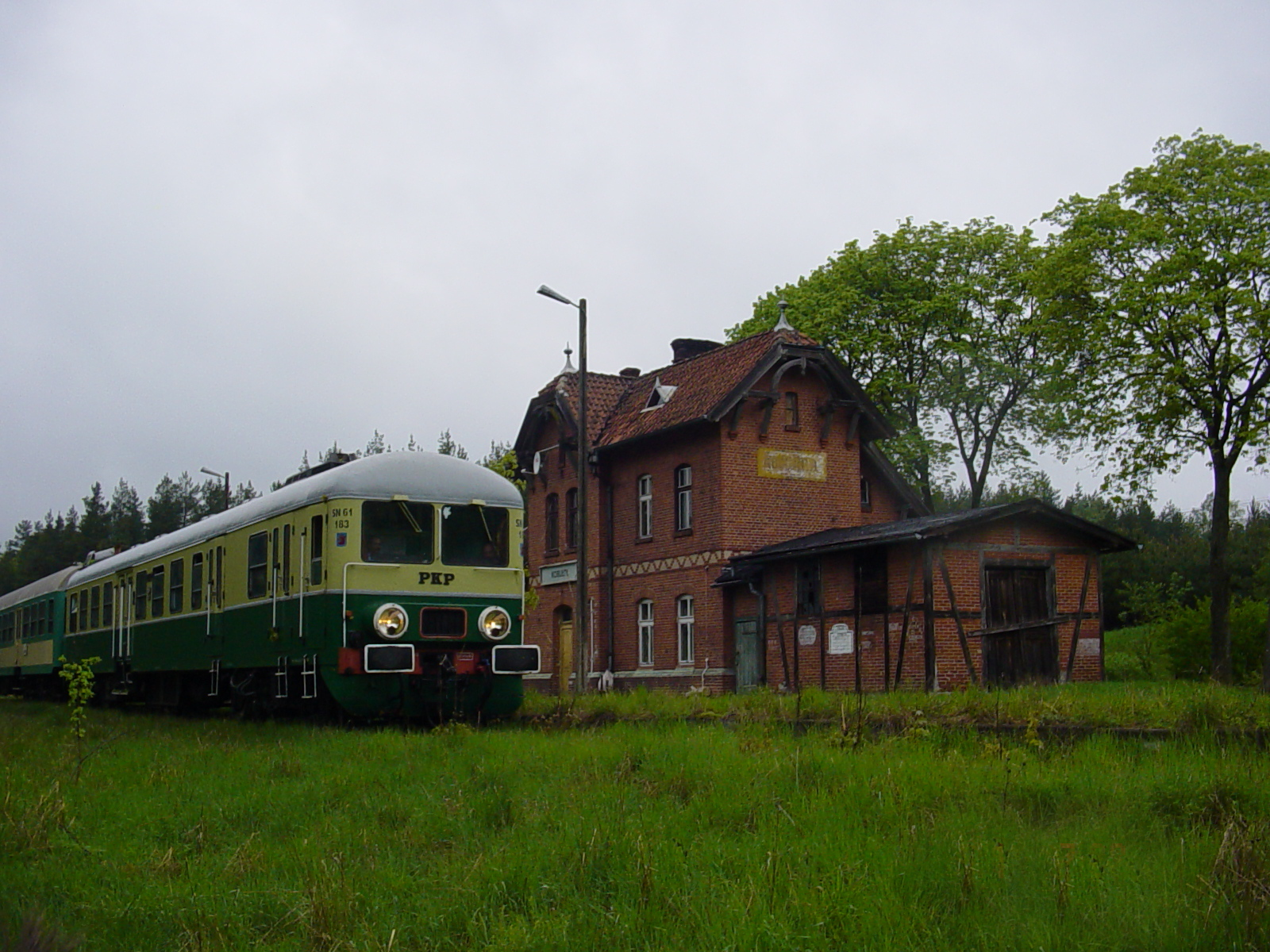 Train stop in Kobułty, Poland, on route 262, with a tourist train (diesel railcar SN61) for railfans.